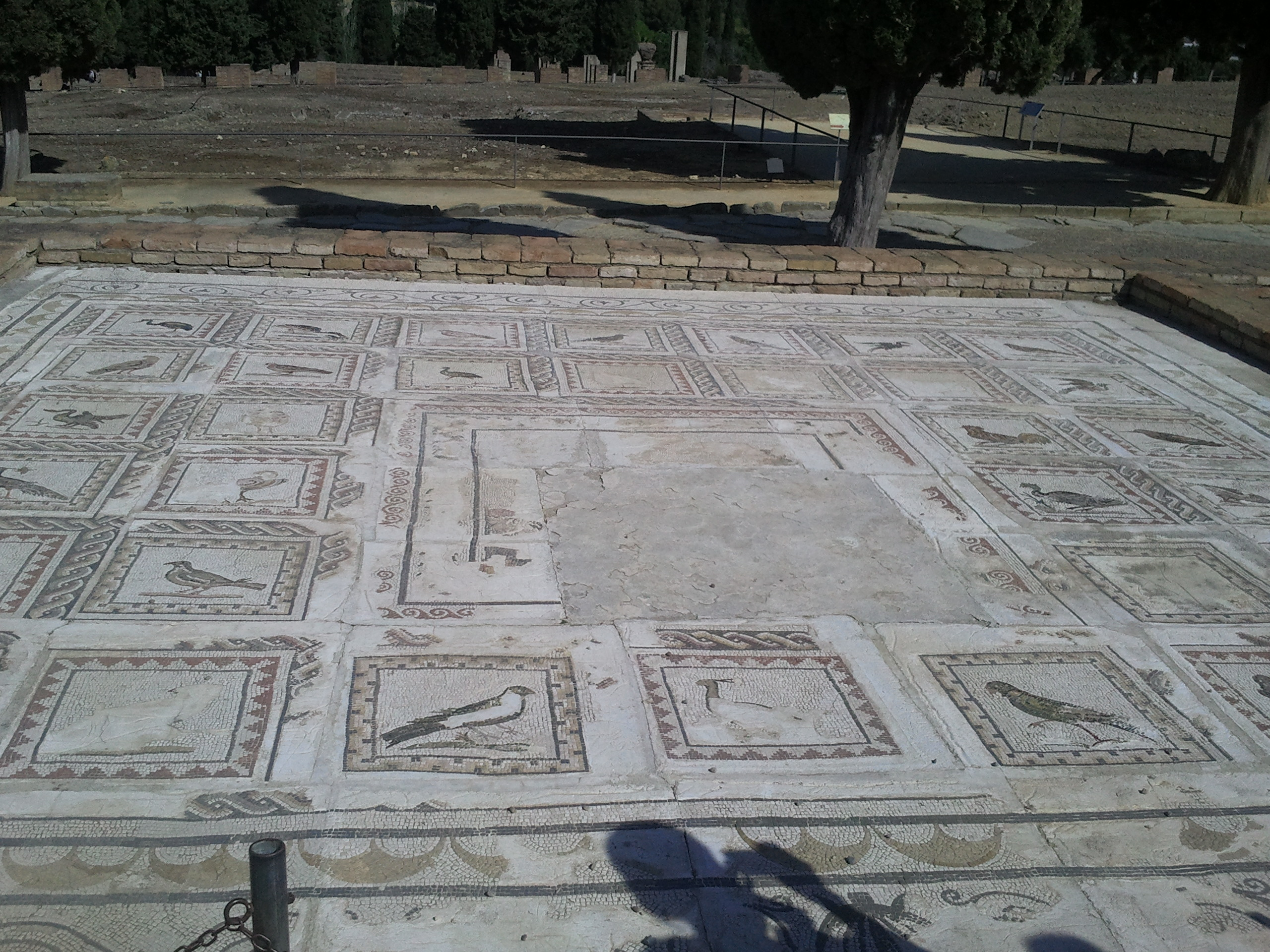 "The house of birds", in Itálica archeological site, Santiponce, Andalucia, Spain